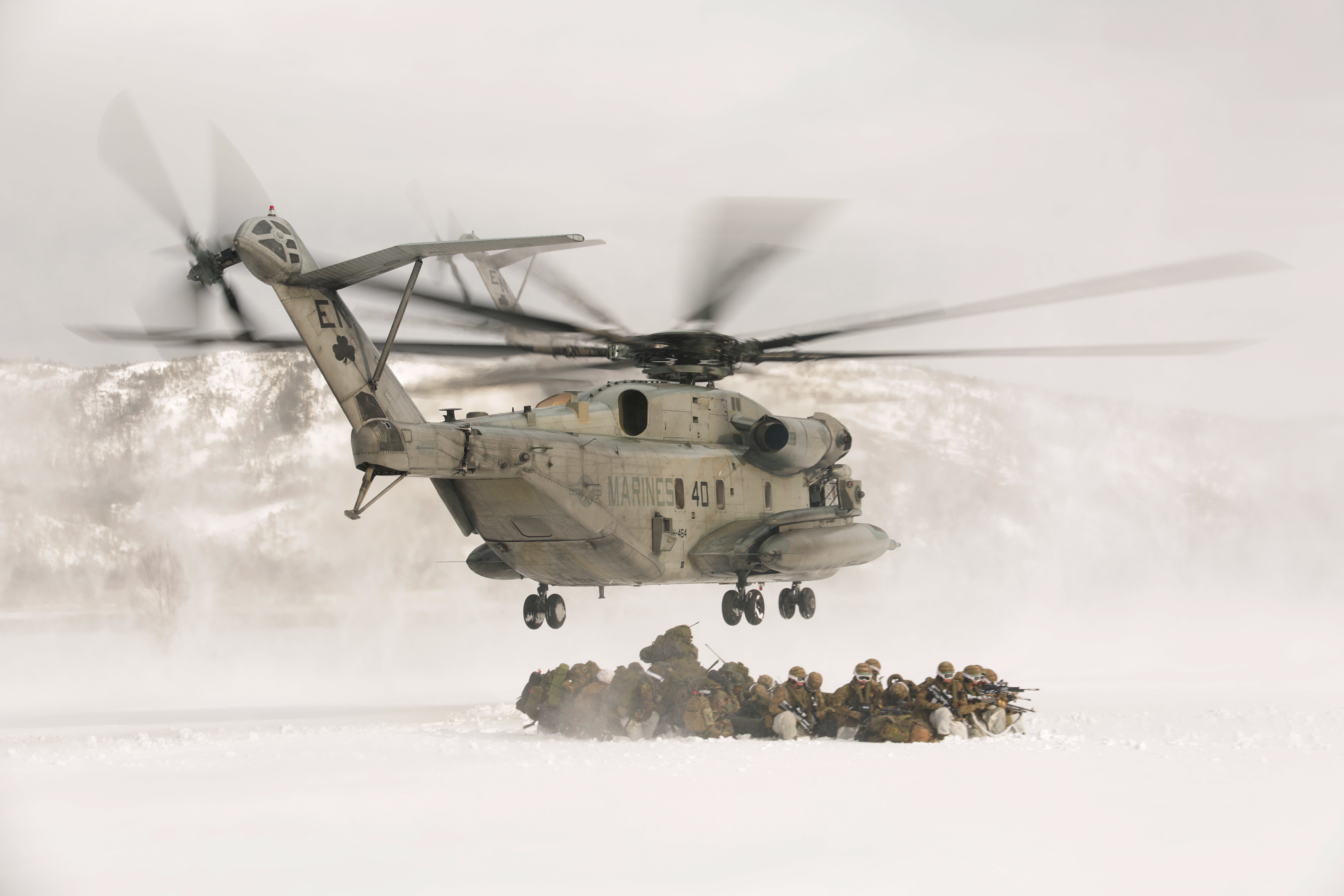 The condors conduct an extract of foreign troops in arctic conditions during Exercise COLD RESPONSE 16.